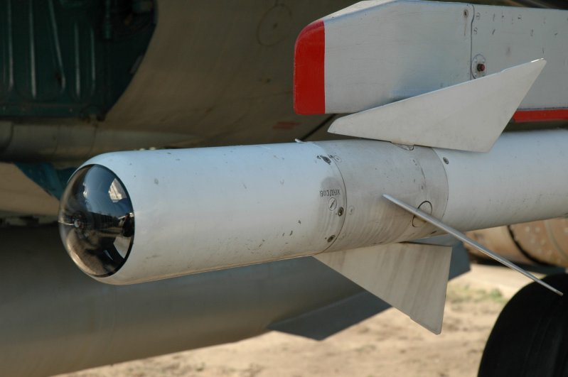 Infrared seeker of the R-3 (AA-2 Atoll) air-to-air missile. (Displayed in the Military History Museum and Park in Kecel, Hungary.)